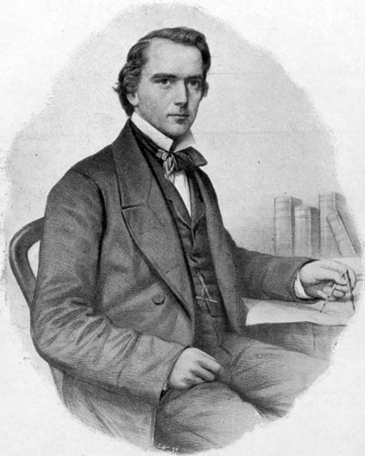 Charles Tilston Bright. Tilston appears to be 25-30, ~1870